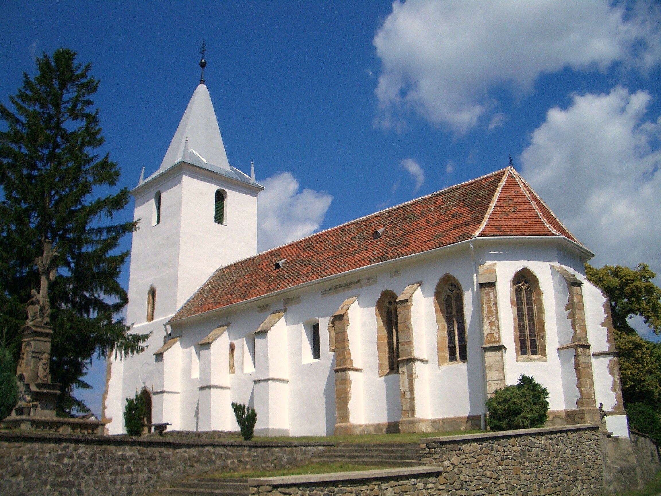 Church of Zalaszántó